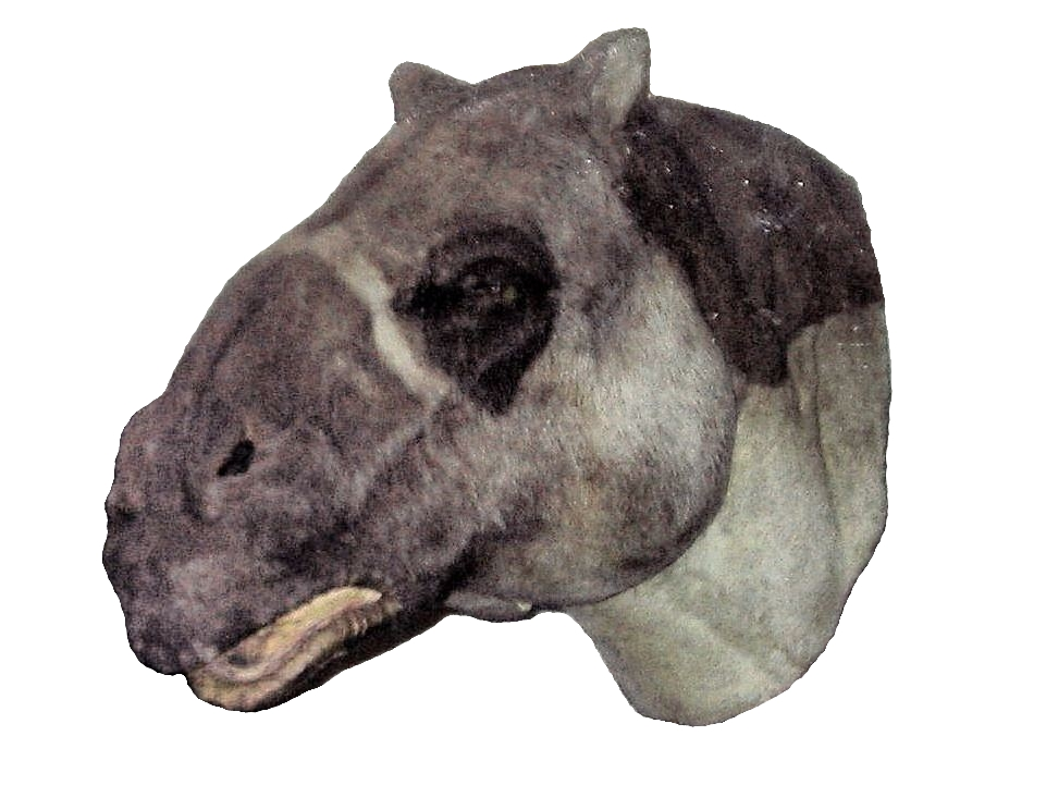 Walk With Beasts exhibition, Horniman Musem, London. Ancylotherium model.